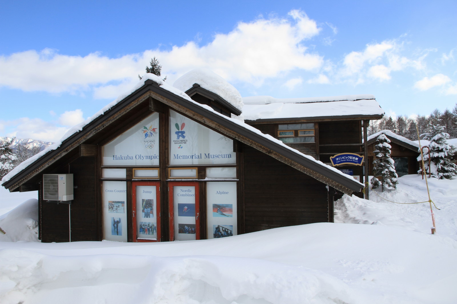 Hakuba olympic museum Nagano, Japan